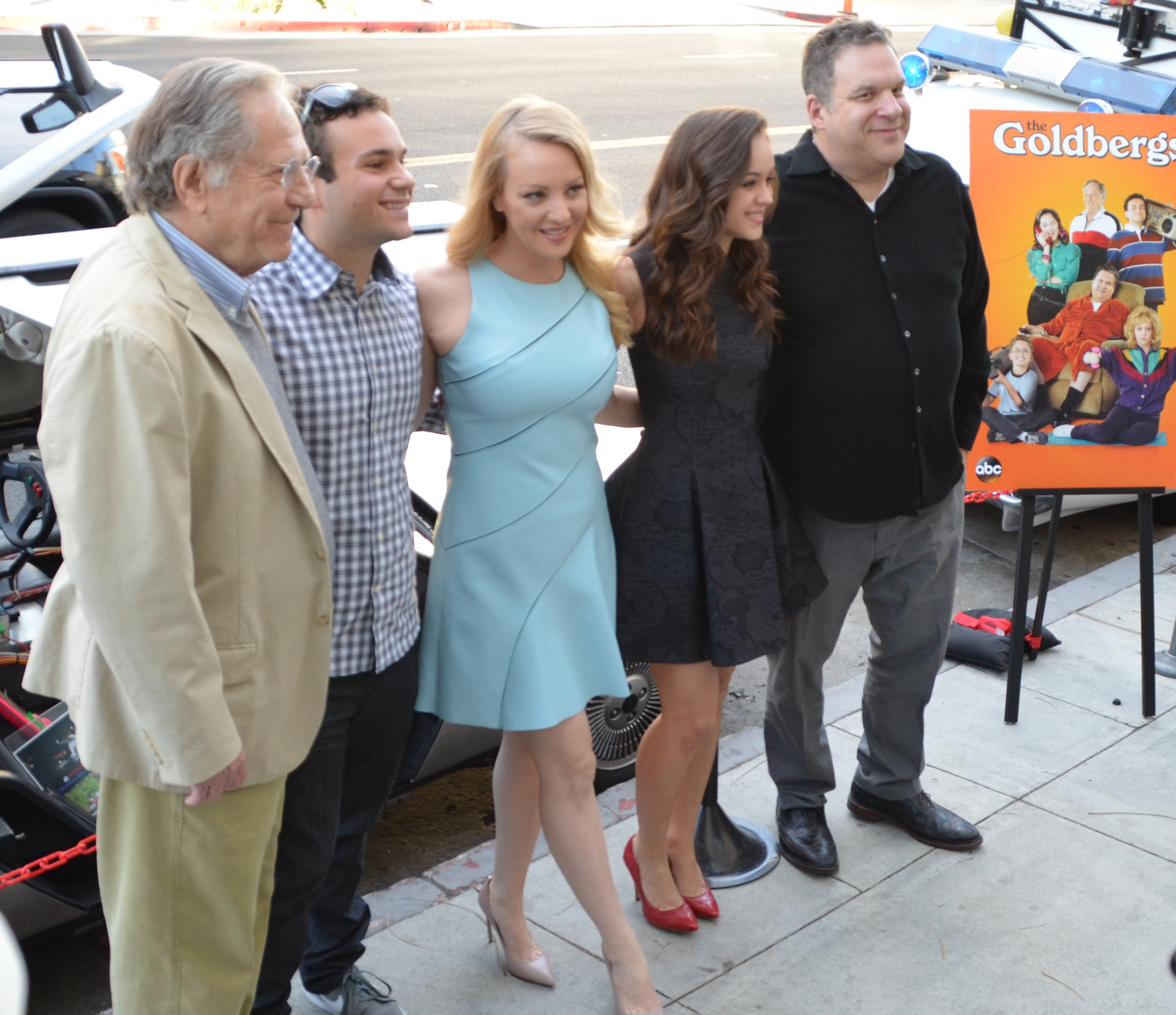 The Goldbergs on ABC